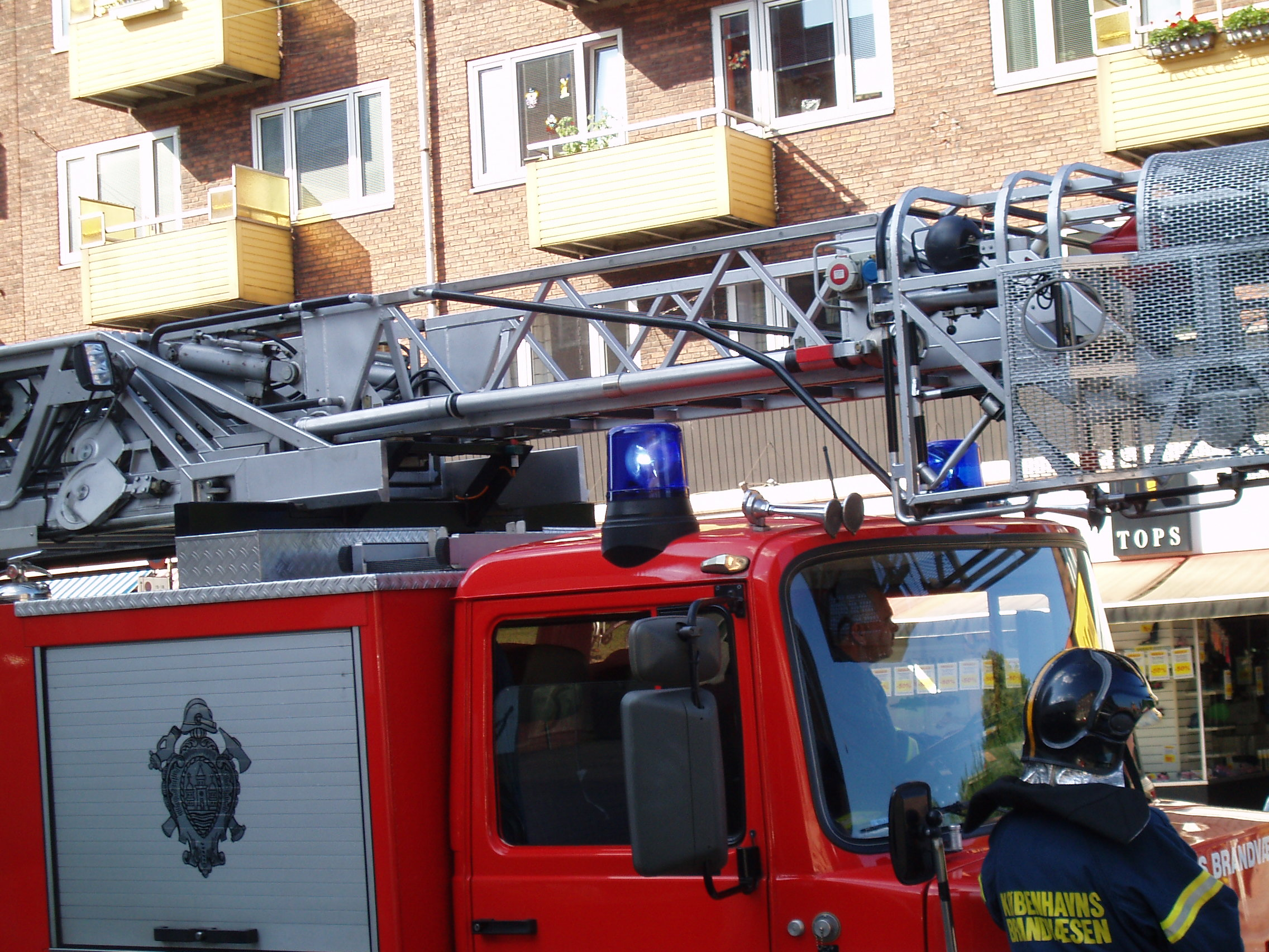 Turntable ladder district T (norhtwest) of Copenhagen Fire Brigade. Purpose of the image was to catch the flashing blue light.